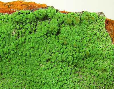 Conichalcite Locality: Ojuela Mine, Mapimí, Municipio de Mapimí, Durango, Mexico (Locality at ) Size: 10.4 x 8.9 x 4.2 cm. What you see here as a field of pretty, powdery green conichalcite here is actually made up of thousands of tiny crystalline balls. They form a solid field on the underlying limonite matrix. Pretty contrast between the moss green and rust colors. Quite a large plate for the locality!